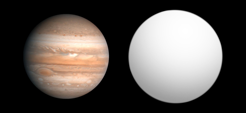 Comparison of best-fit size of the exoplanet TrES-1 b with the Solar System planet Jupiter, as reported in the Extrasolar Planets Encyclopaedia[1] as of 2010-10-03. ↑ Extrasolar Planets Encyclopaedia (2010-09-30). Retrieved on 2010-10-03.